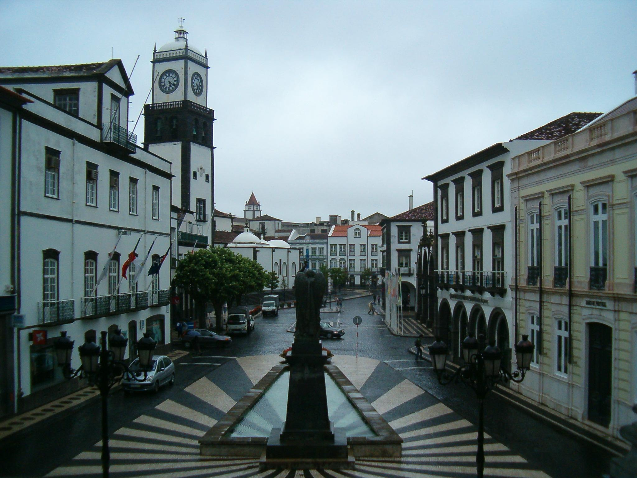 Ponta Delgada - paços